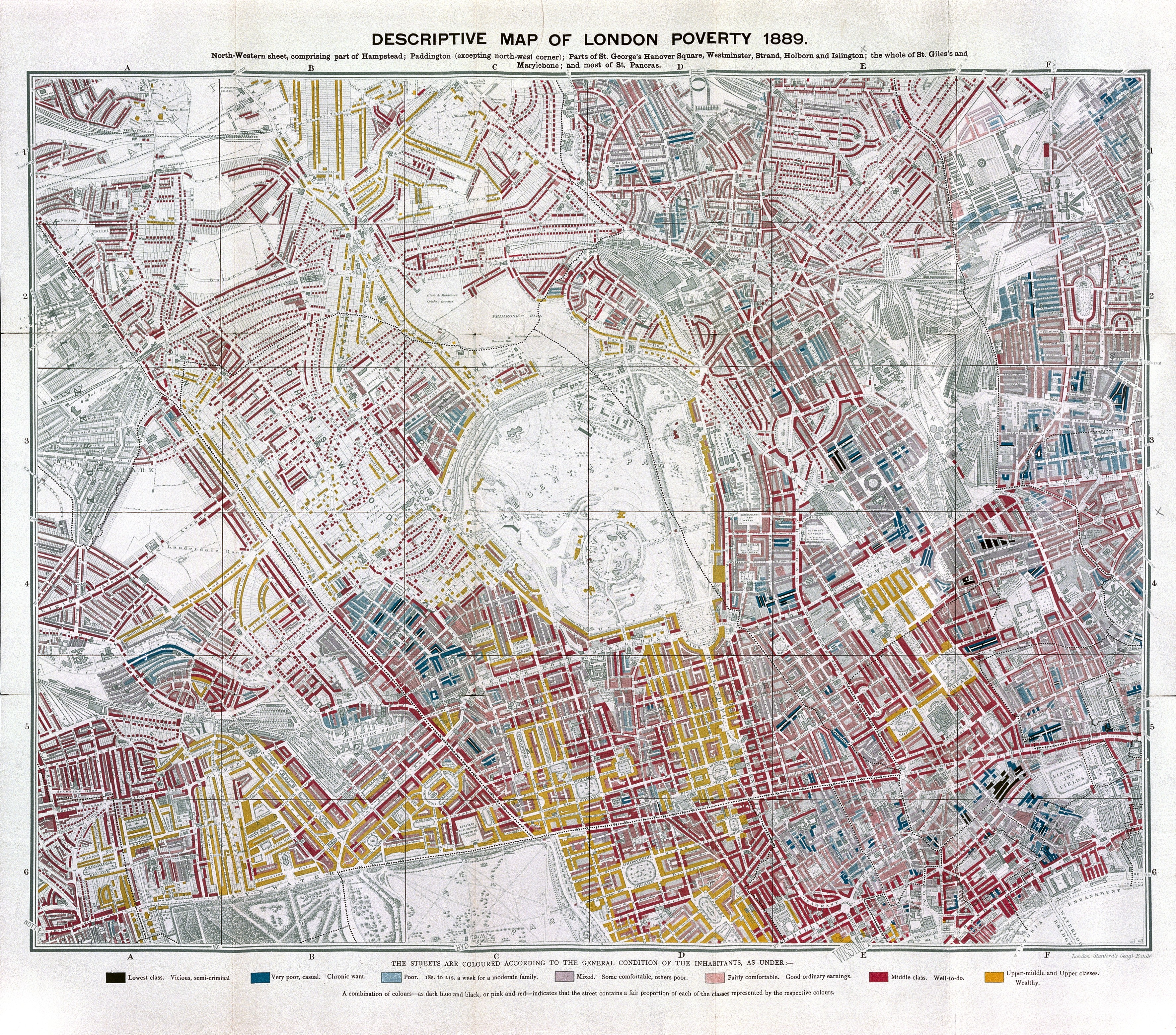 Descriptive map of London poverty, 1889 (north - western sheet) General Collections Keywords: LABOUR; Poverty; Maps; London; Charles Booth